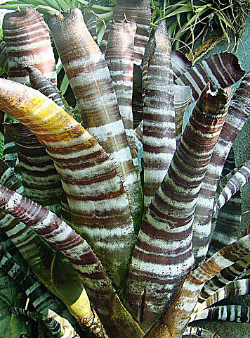 Native to the northern Andes, photo at the Denver Botanical Gardens. In context at